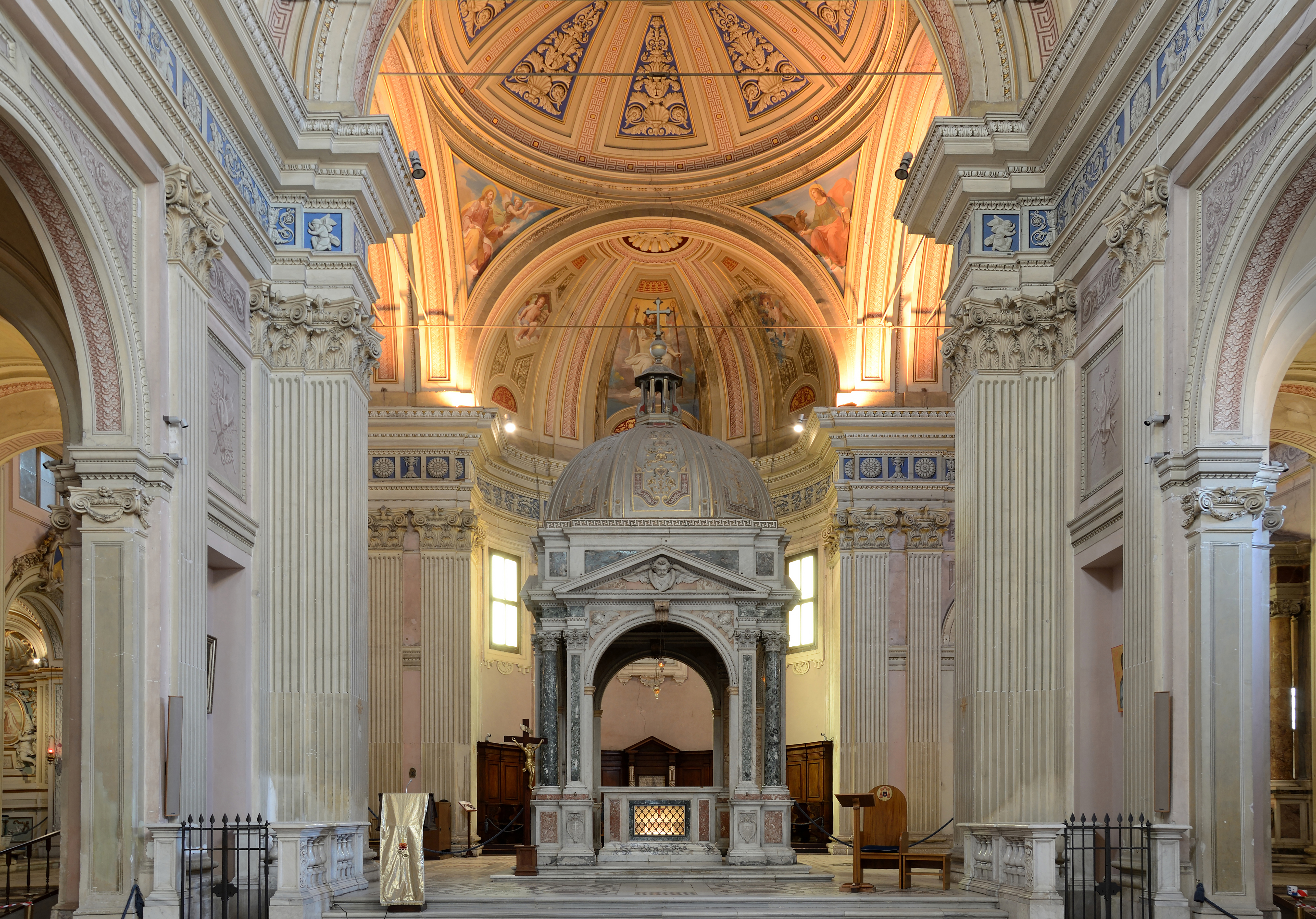 Altar of Santi Bonifacio e Alessio (Rome)